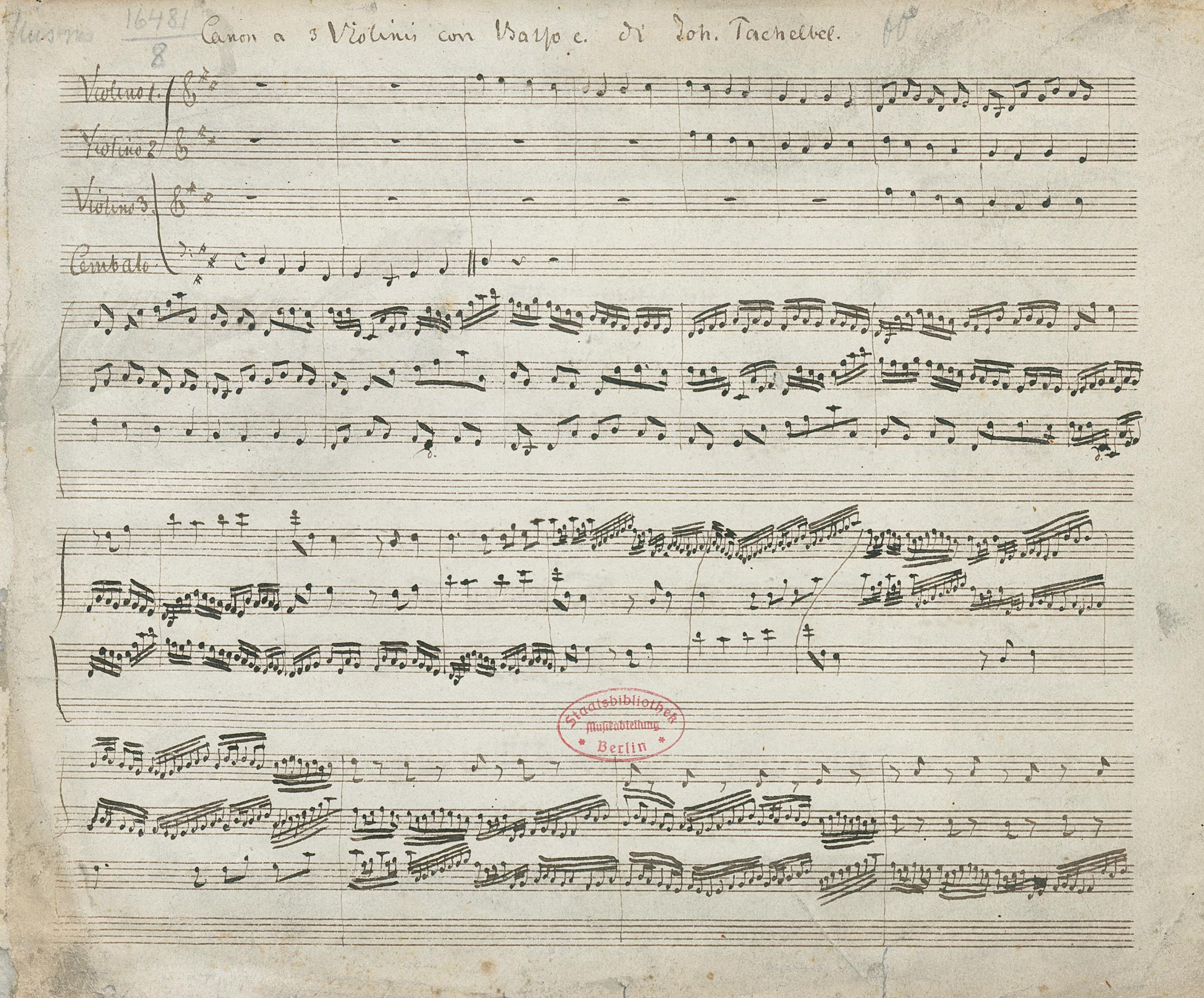 First page of Mus.MS 16481-8 from Staatsbibliothek zu Berlin - the oldest surviving copy of Johann Pachelbel's "Canon and Gigue in D major" (first movement popularly known as "Pachelbel's Canon"). Shows the first bars of the canon.